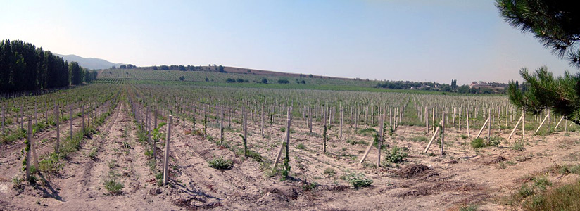 The "Valley of Death" in which the Charge of the Light Brigade was fought.